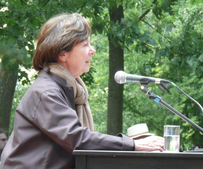 german poet and author Ulla Hahn at the Erlanger Poetenfest 2009